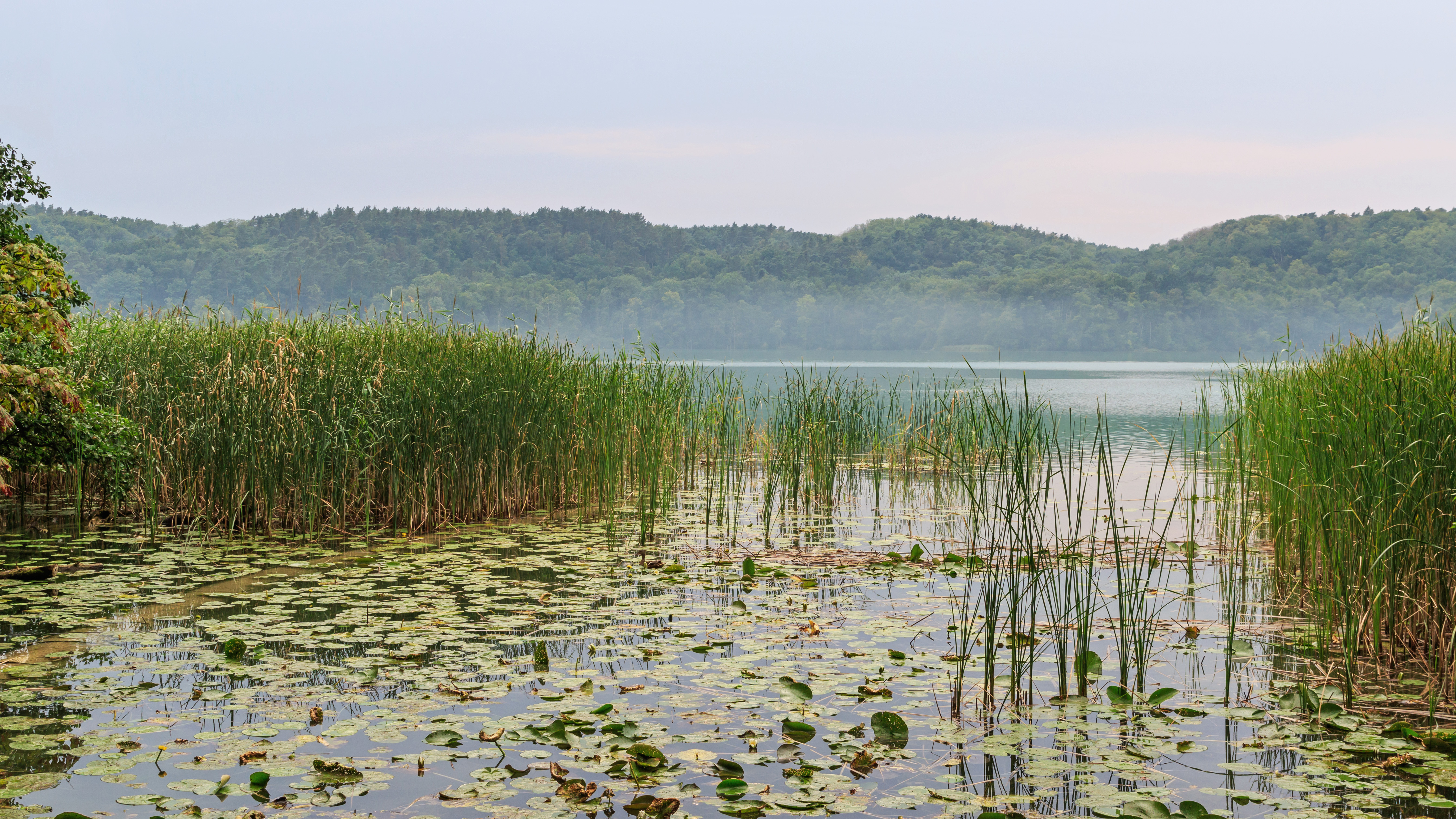 Lake Schermützelsee as seen from the garden of the Brecht/Weigel Museum in Buckow (Märkische Schweiz), Brandenburg, Germany